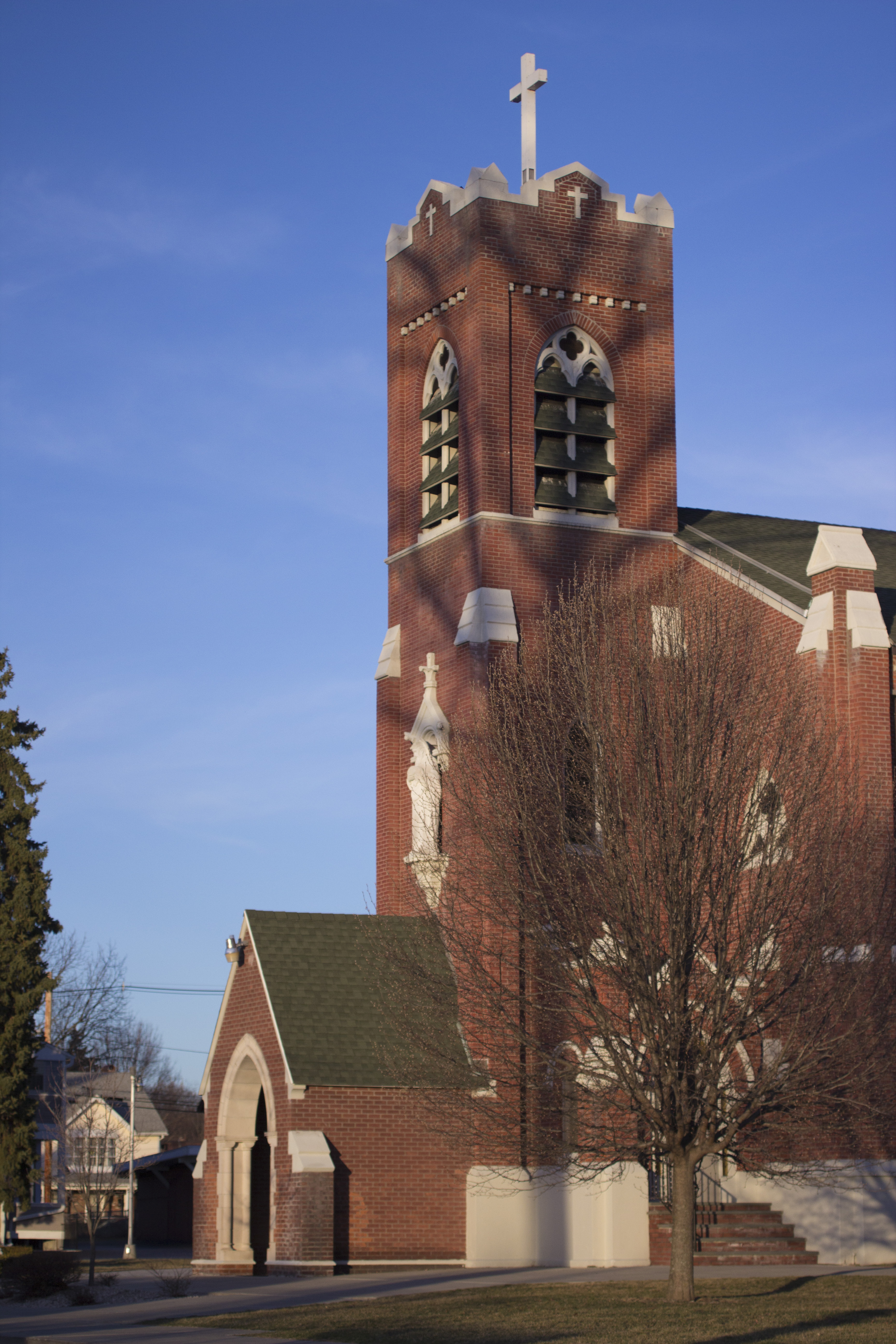 A photo of the St. Joachim and St. John the Evangelist's Church in Beacon, New York